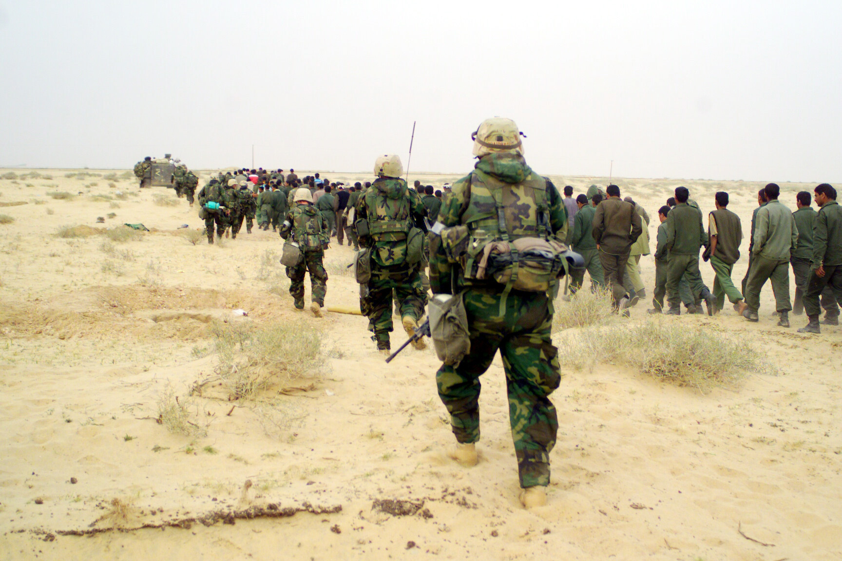 U.S. Marines from the 2nd Battalion, 1st Marine Regiment escort captured enemy prisoners of war to a holding area in the desert of Iraq on March 21, 2003, during Operation Iraqi Freedom.